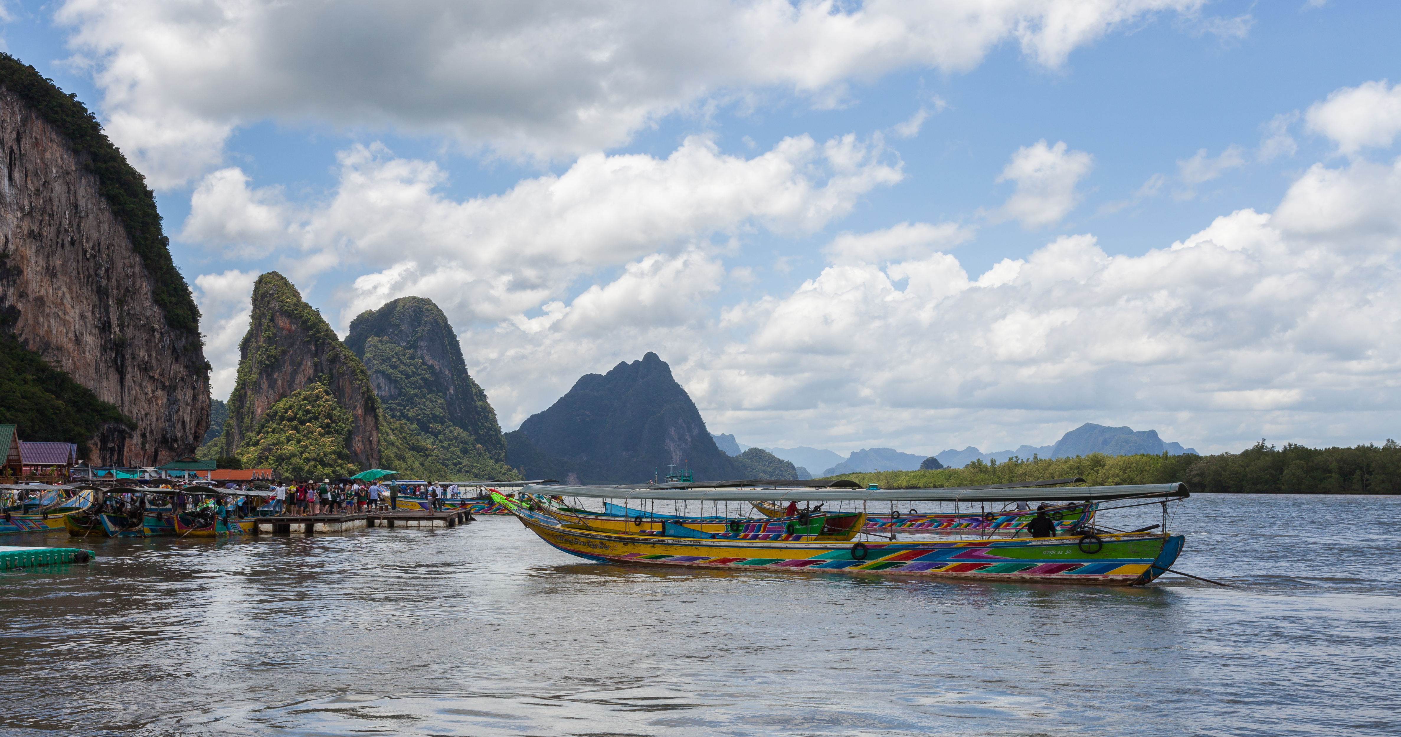 Panyee Island, Phuket, Thailand